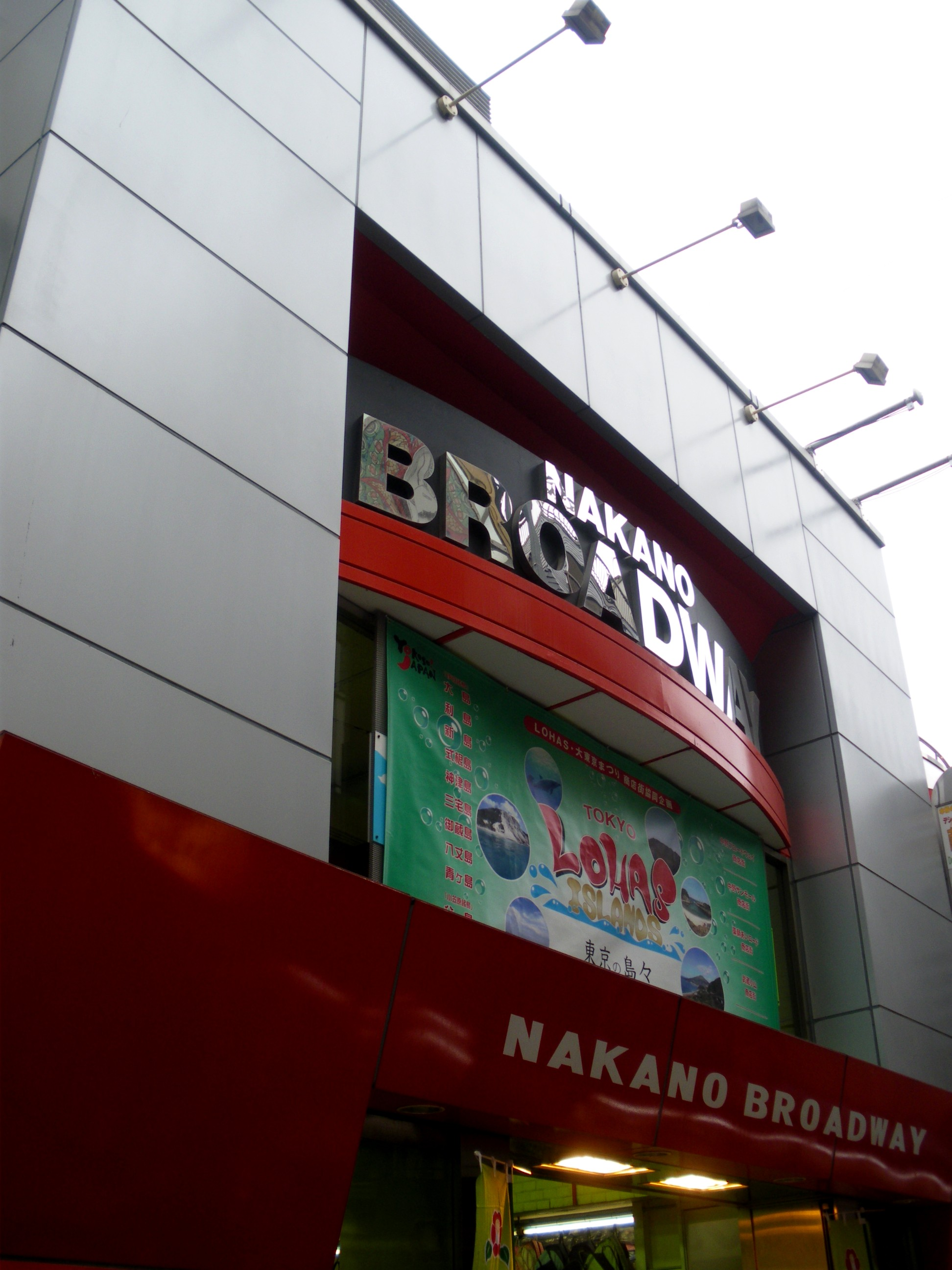 A photo of an entrance of Nakano Broadway.Nakano,Nakano-ku,Tokyo,Japan. the head store of "Mandarake"( one of Tokyo's largest vendors of used anime and manga-related products)is located in this building.